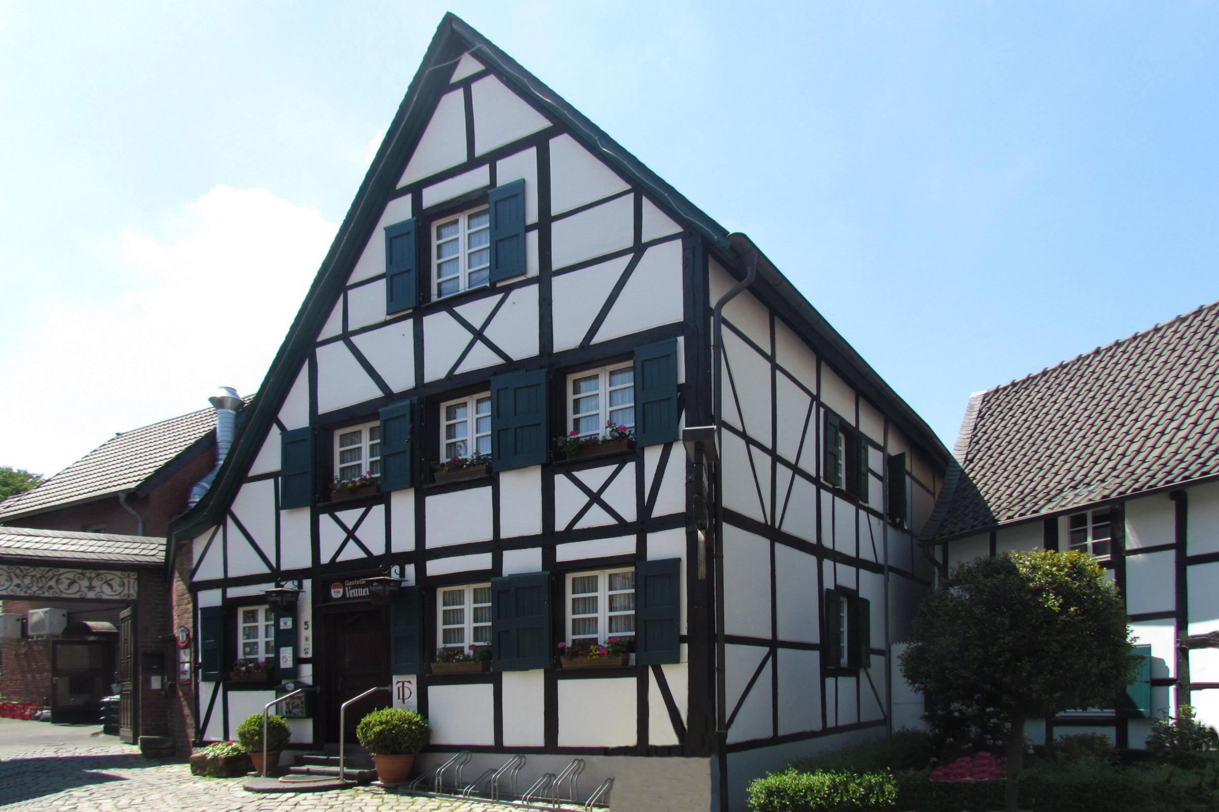 This is a photograph of an architectural monument.It is on the list of cultural monuments of Korschenbroich